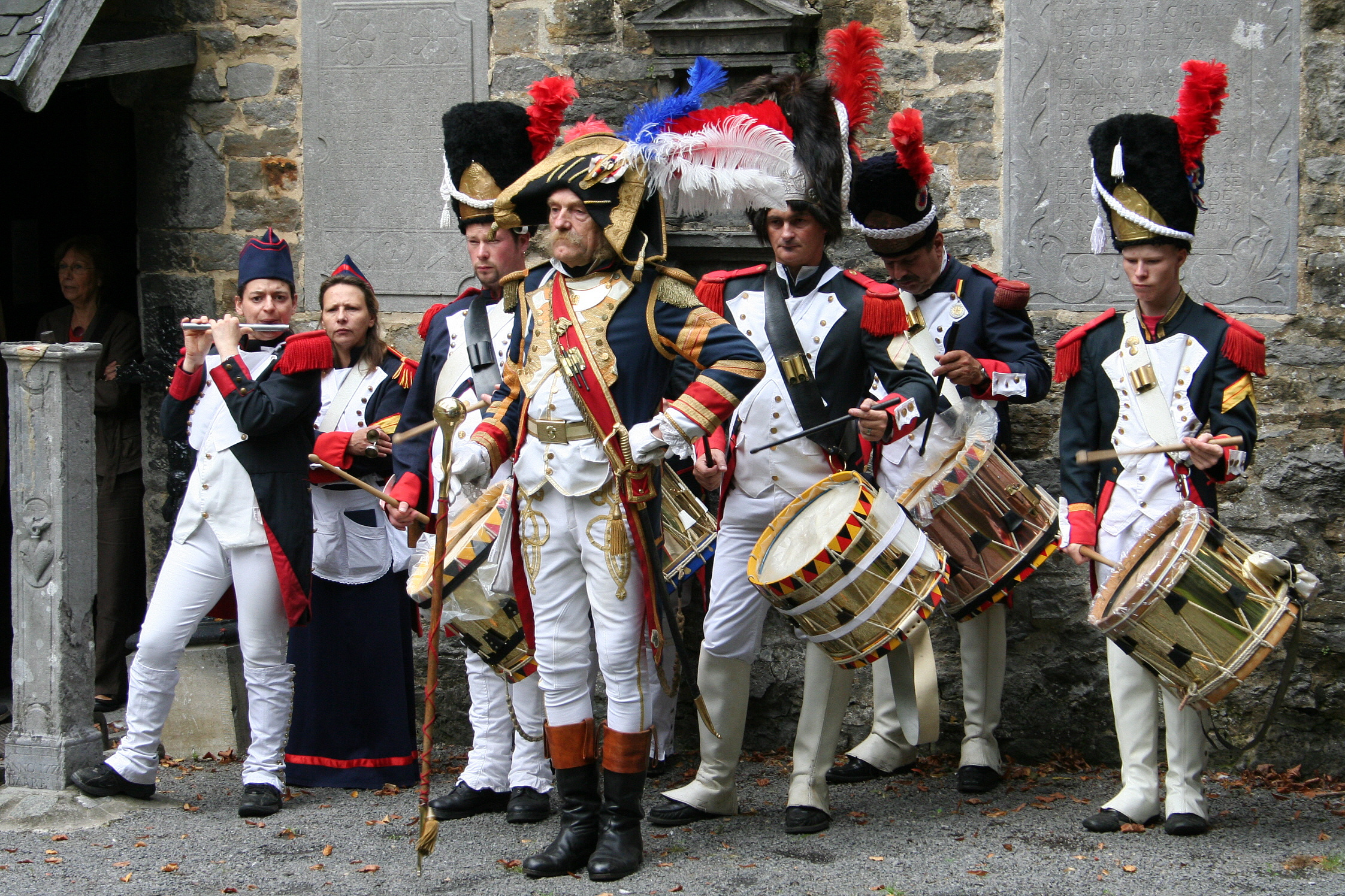 Soignies (Belgium) - A Tambour-Major of the French Imperial Guard (historical reenactment).